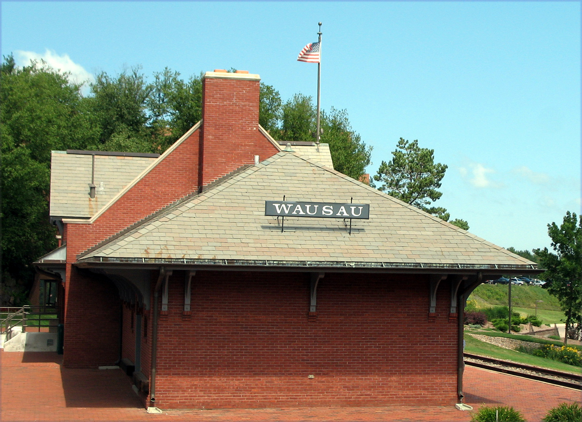 Copy of the Milwaukee Line train station built on the hill campus of Wausau Insurance above Wausau, Wisconsin.